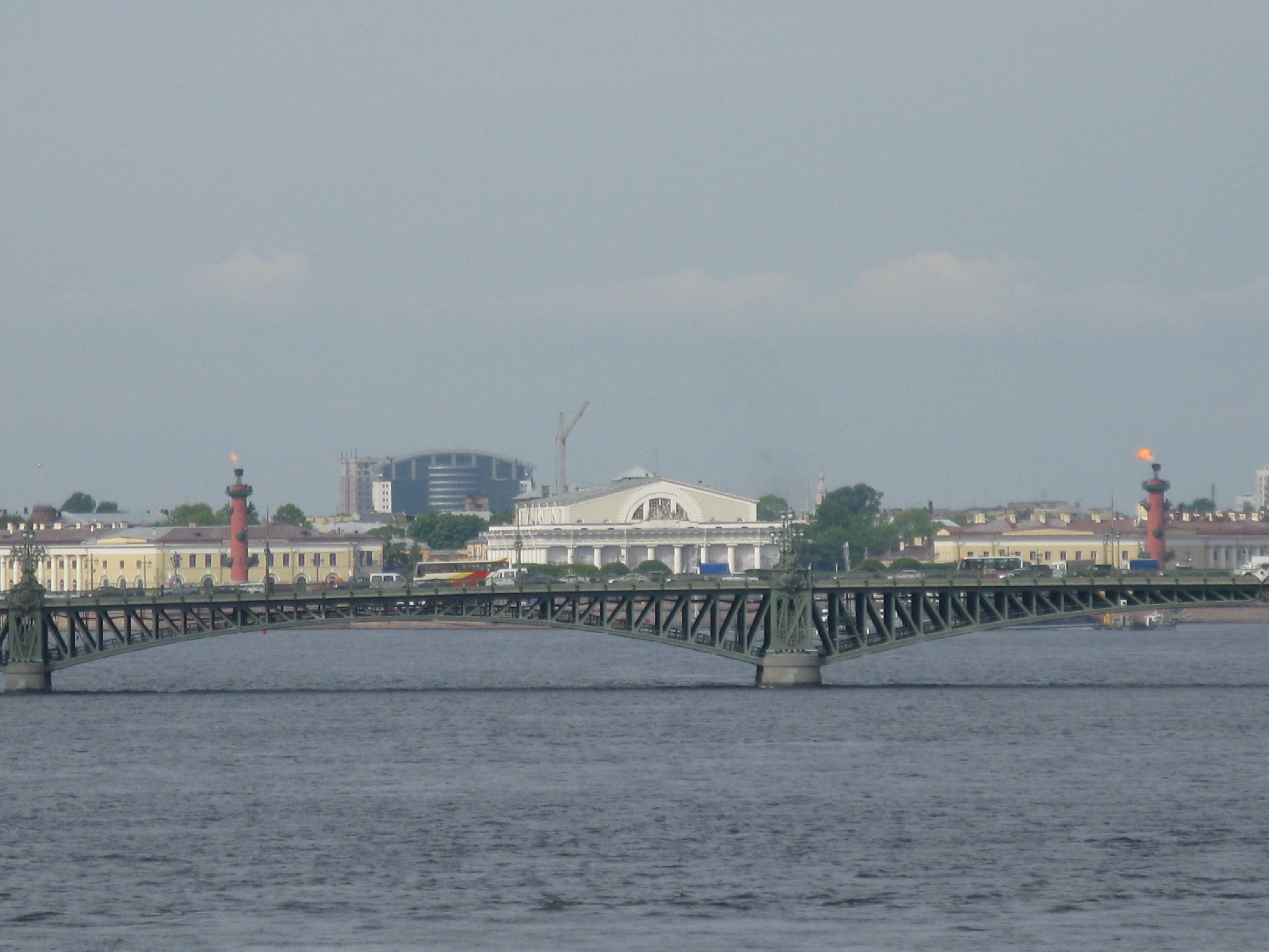 Spit of the Vasilievsky Island. Panorama is damaged by 2 new houses build in 2007-2008